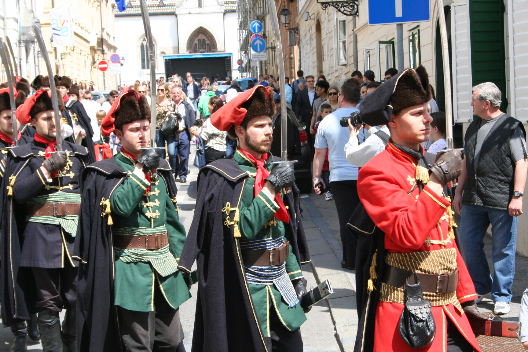 The Cravat Regiment in Upper Town in Zagreb, Croatia (April 2015).